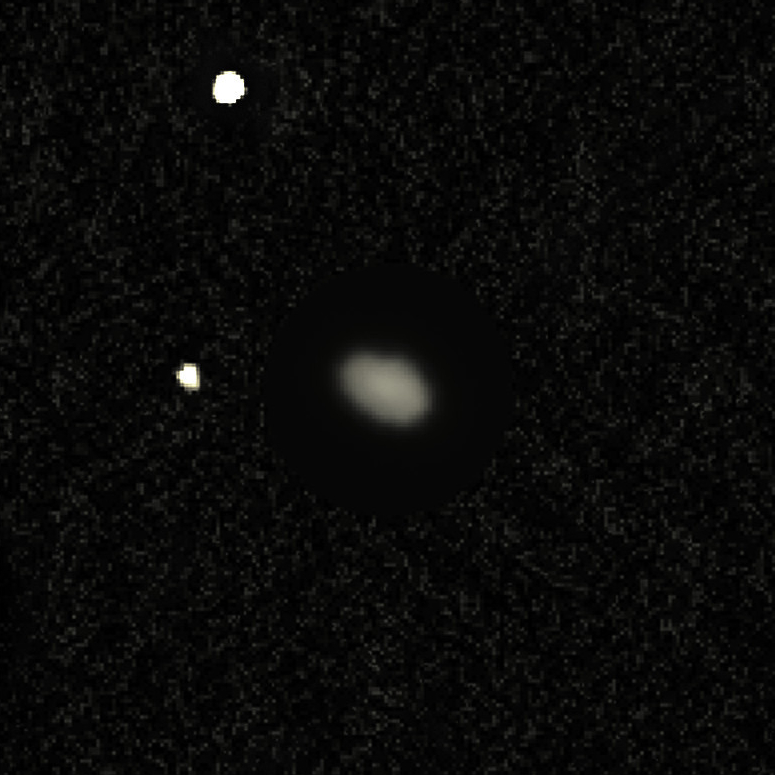 Astronomers have discovered a new satellite orbiting the main belt asteroid (130) Elektra— the smallest object visible in this image. The team, led by Bin Yang (ESO, Santiago, Chile), imaged it using the extreme adaptive optics instrument, SPHERE, installed on the Unit Telescope 3 of ESO’s Very Large Telescope at Cerro Paranal, Chile. This new, second moonlet of (130) Elektra is about 2 kilometres across and has been provisionally named S/2014 (130) 1, making (130) Elektra a triple system. Exploiting the unprecedented sensitivity and spatial resolution of the instrument SPHERE, the team also observed another triple asteroid system in the main belt, (93) Minerva. Asteroids are the relics of the building blocks that formed the terrestrial planets in the early days of the Solar System. Studying asteroids with multiple satellites is of crucial importance because their formation mechanisms can provide information about planet formation and evolution that cannot be revealed by other methods. Using the data gathered with SPHERE the team inferred that both (130) Elektra and (93) Minerva were created in an erosive impact. As a result of the collision substantial chunks of matter can break away into space to form small satellites of one of the original bodies. In this case the small separation of the satellites from their larger parent asteroids, the large mass ratios between the moonlets and the primaries and the same composition between moonlets and primaries support this theory. Links Research paper by Yang et al.